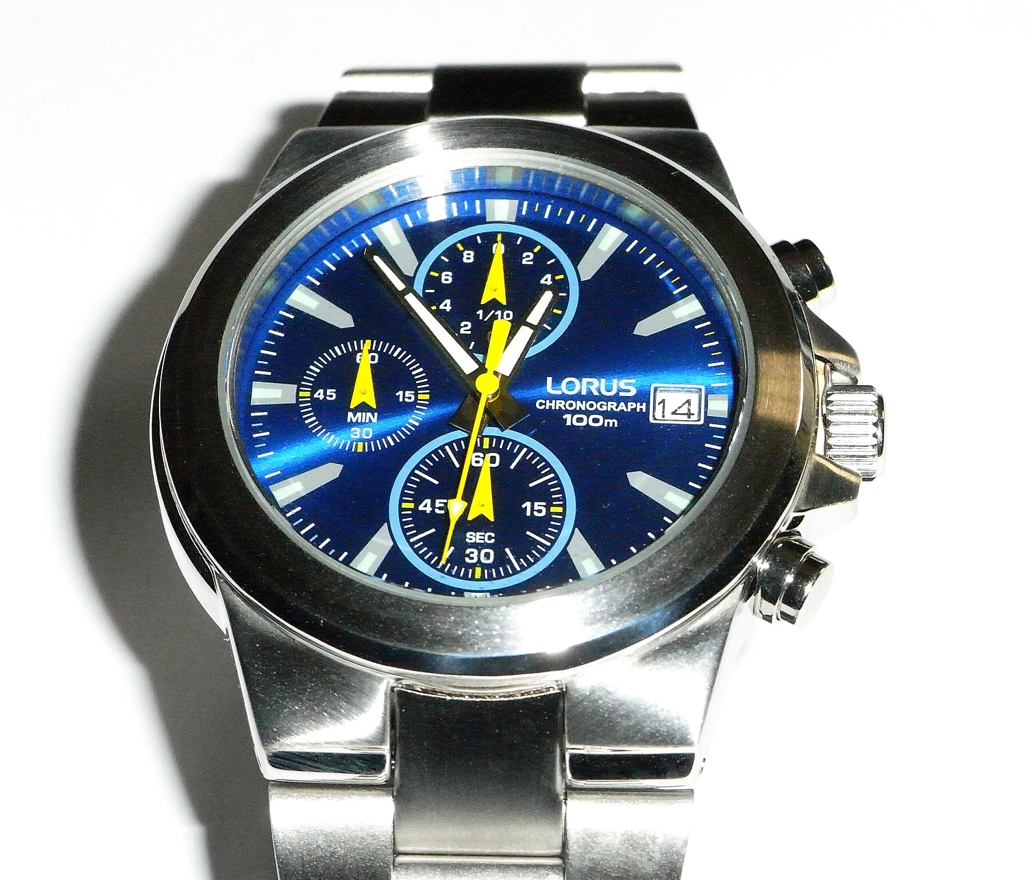 Lorus